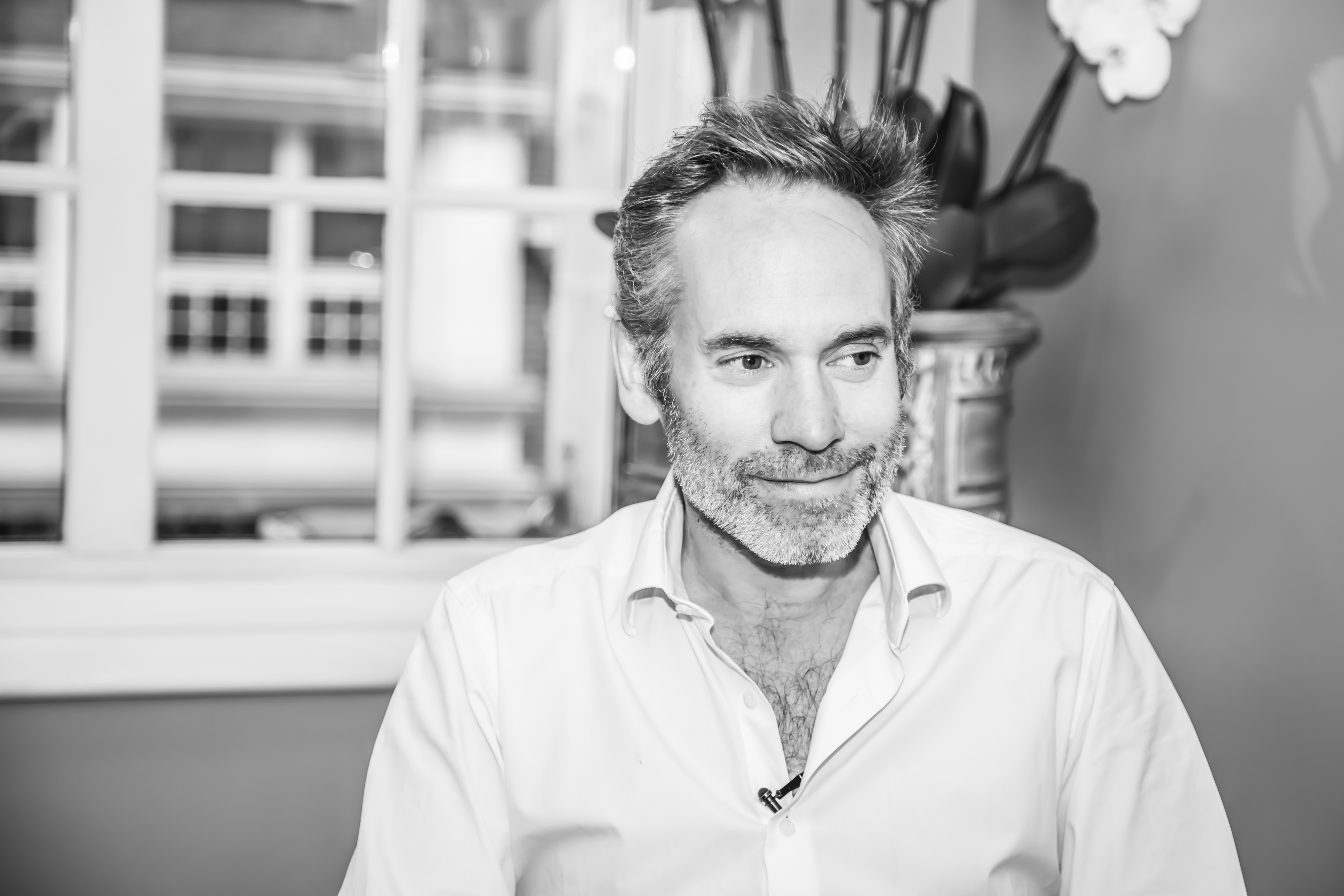 Author Dominic Frisby